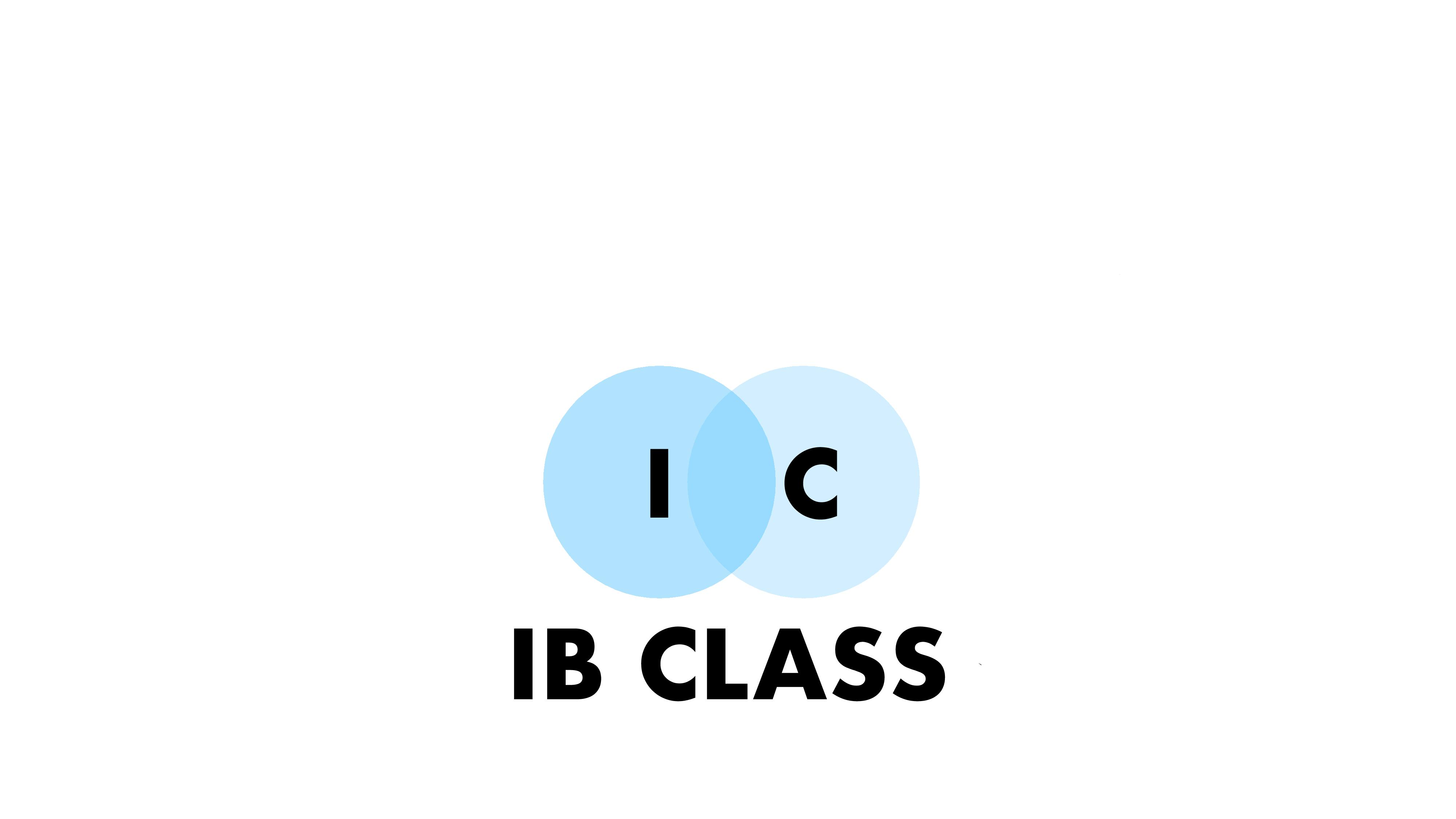 It is a Logo of IB CLASS